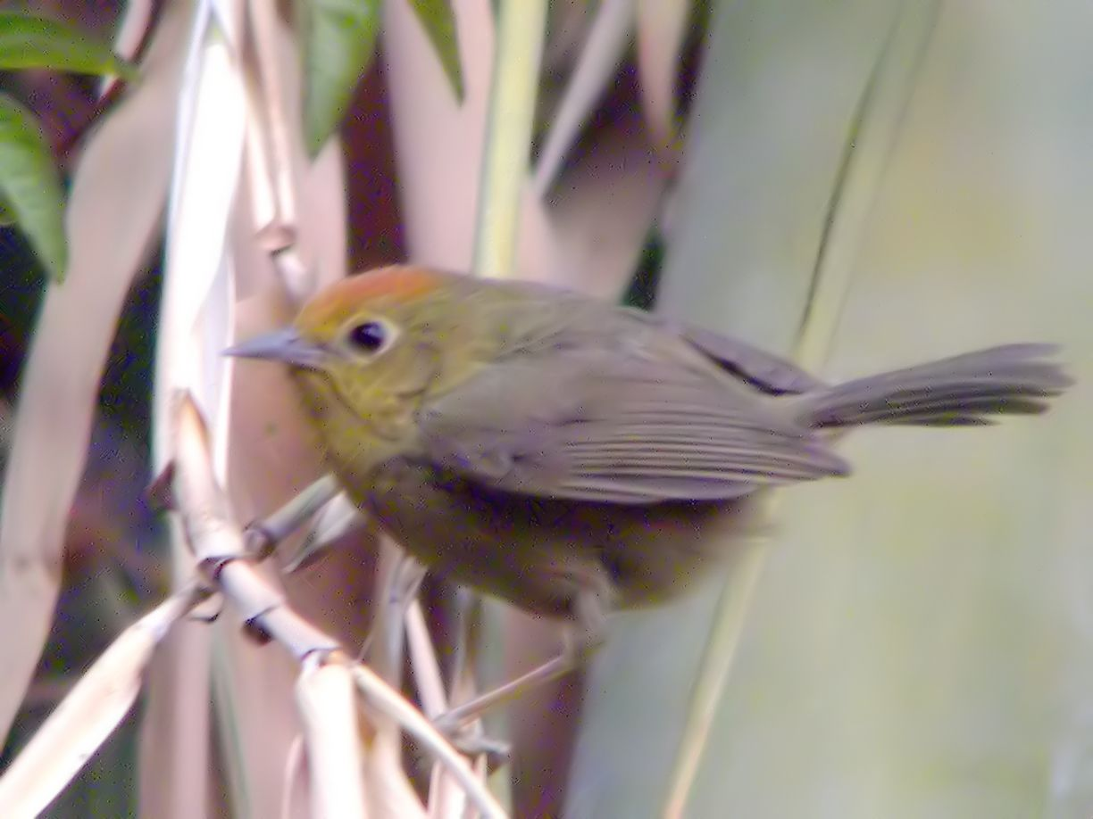 Rufous-capped Babbler (Stachyridopsis ruficeps)